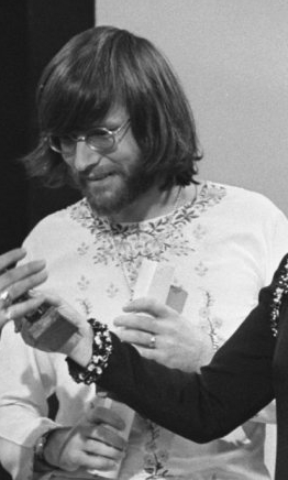 Bass guitarist Arnold Mühren from The Cats